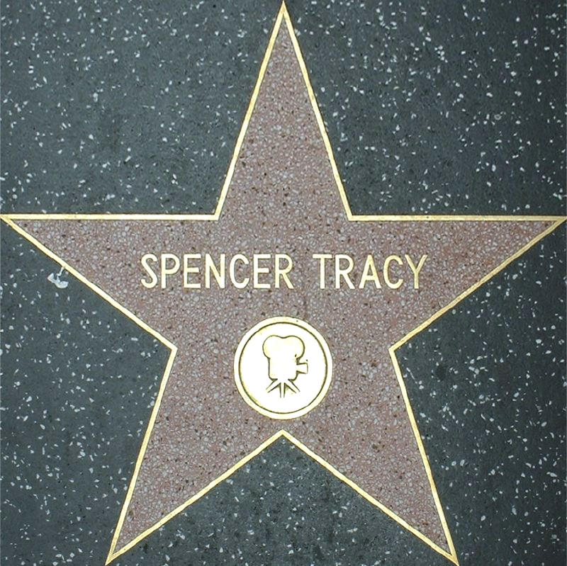 Spencer Tracy's star on the Hollywood Walk of Fame